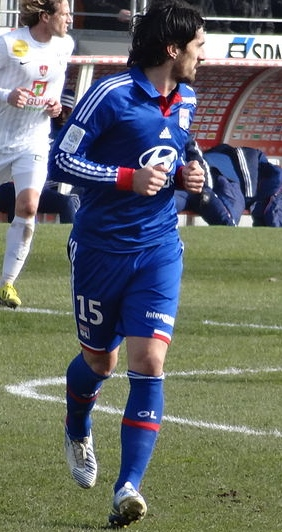 Bisevac playing for Lyon against Brest on March 3, 2013